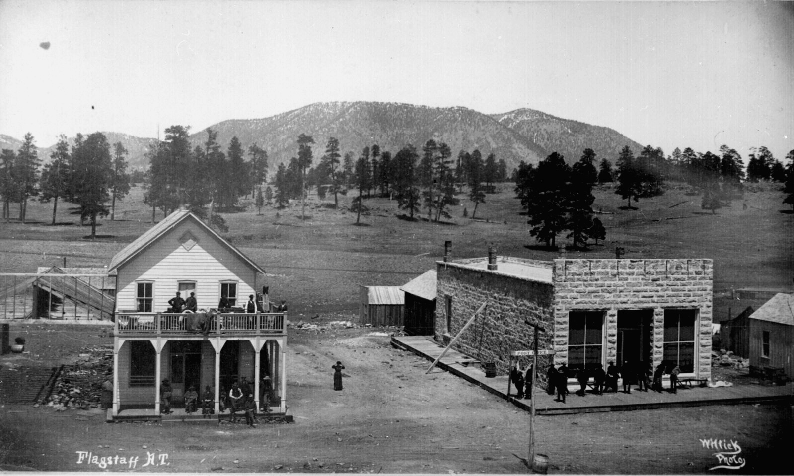 Flagstaff. Street view of post office, other buildings, and people, with mountains in background, ca. 1899.